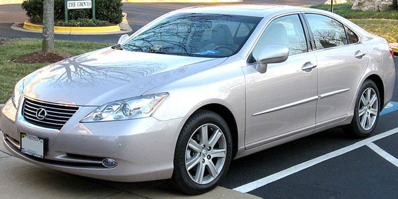 2007 Lexus ES350 photographed in USA; this image is a rotated version of the original.